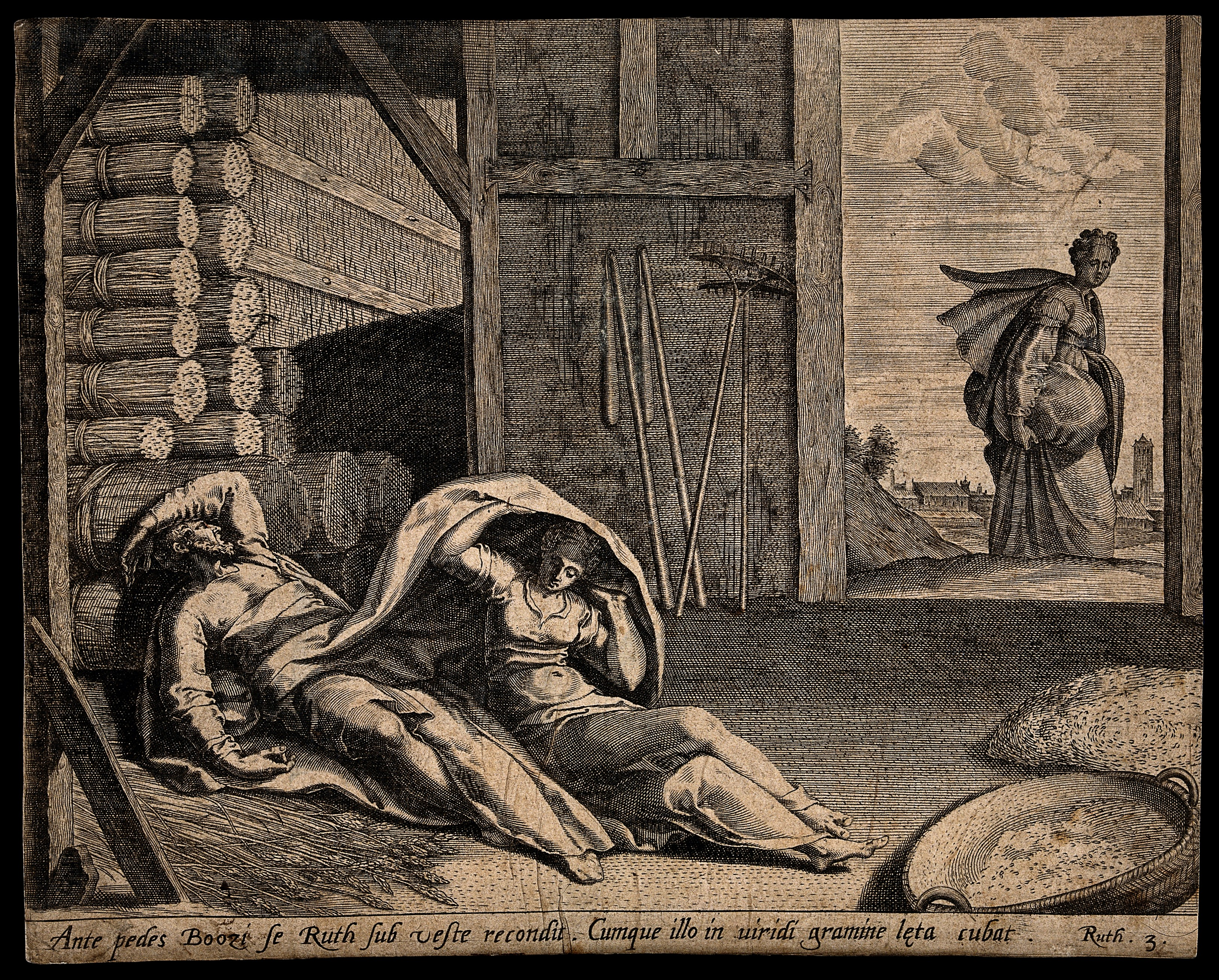 Ruth comes to take shelter under Boaz's cloak. Engraving. Iconographic Collections Keywords: Boaz; Naomi; Ruth